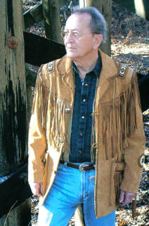 photo of Jim Barnes.